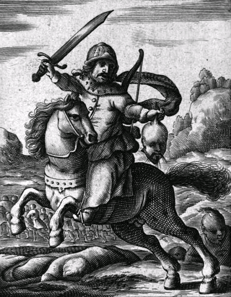 A European artist's impression of a Manchu warrior devastating China, depicted on the cover of Martino Martini's book. Modern historians (e.g. P.K. Crossley in The Manchu, or D.E. Mungello) note the discrepancy between the picture and the content of the book; e.g., the severed head held by the warrior has a queue, which is a Manchu hairstyle (also imposed by Manchu on the population of conquered China), and is not likely to be had by a Ming loyalist.